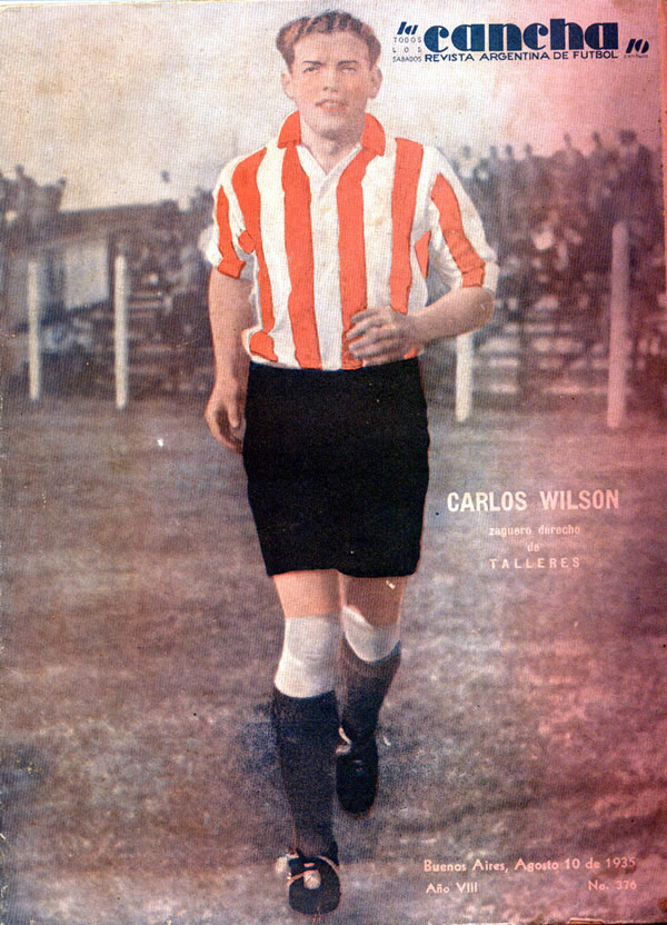 Argentine international association fooball player Carlos wilson (b. 1912) in the Jersey of CA Talleres of Remedios de Escalada 1935 on the cover of the Argentine sports magazine "La Cancha"